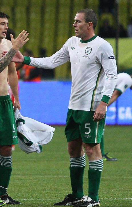 Richard with the Republic of Ireland national football team in 2011. He had to replace his original shirt because it had blood on it due to injury. However, the team did not have a spare shirt with his playing number, so his number (5) was written in front and on the back with a marker.